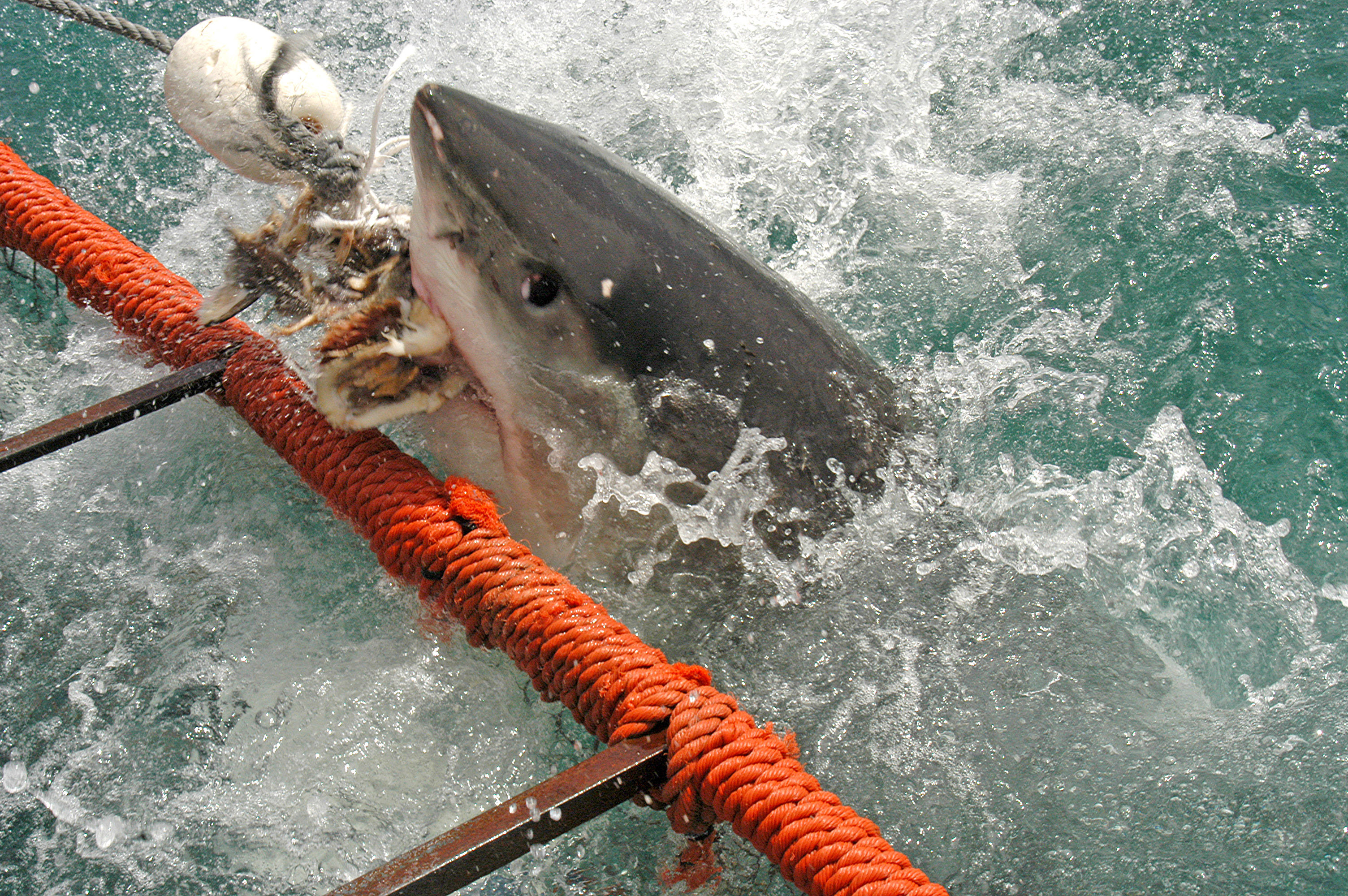 A White Shark biting fish heads used to draw the shark in, outside a cage in False Bay South Africa.